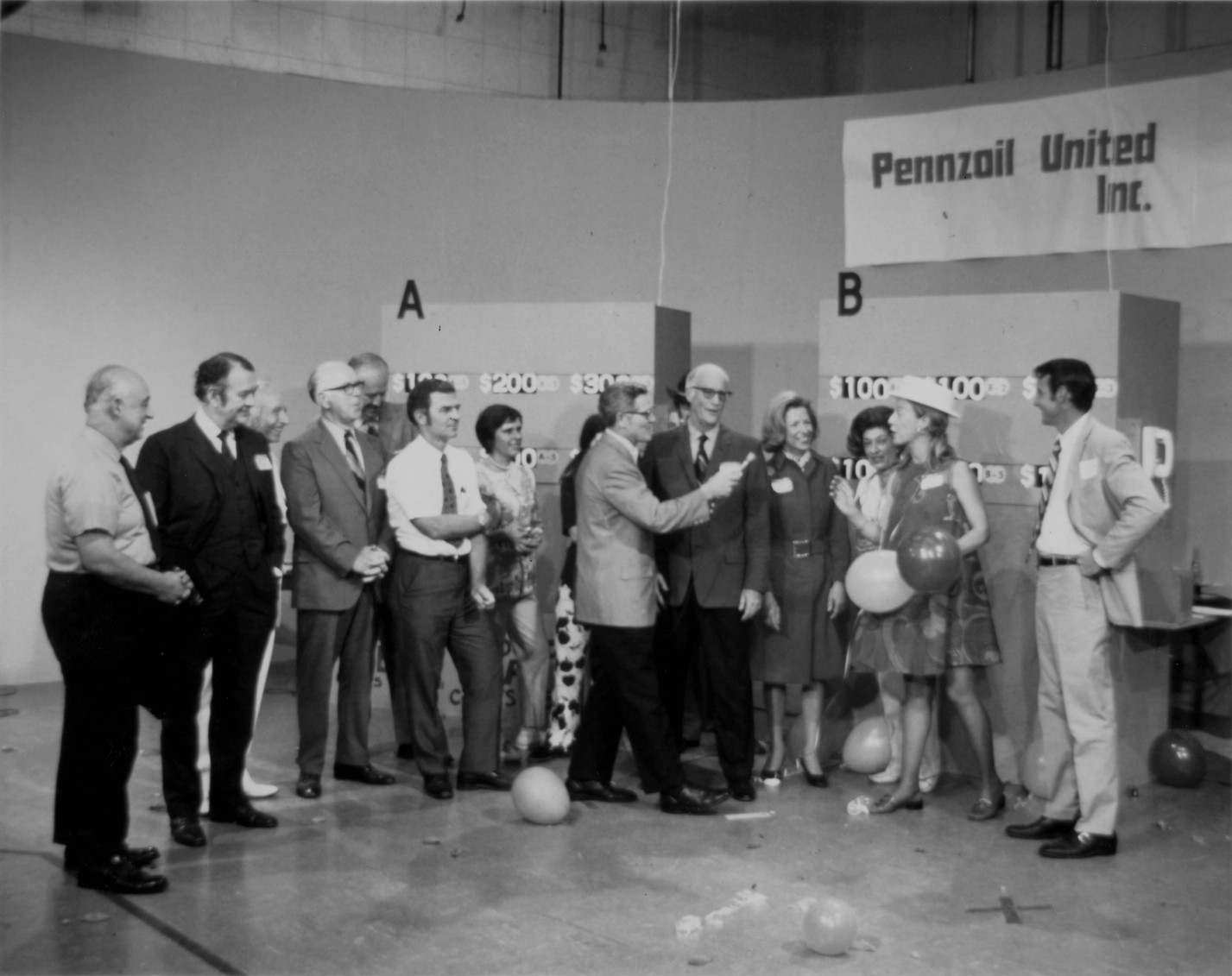 Unnamed game show sponsored by Pennzoil.